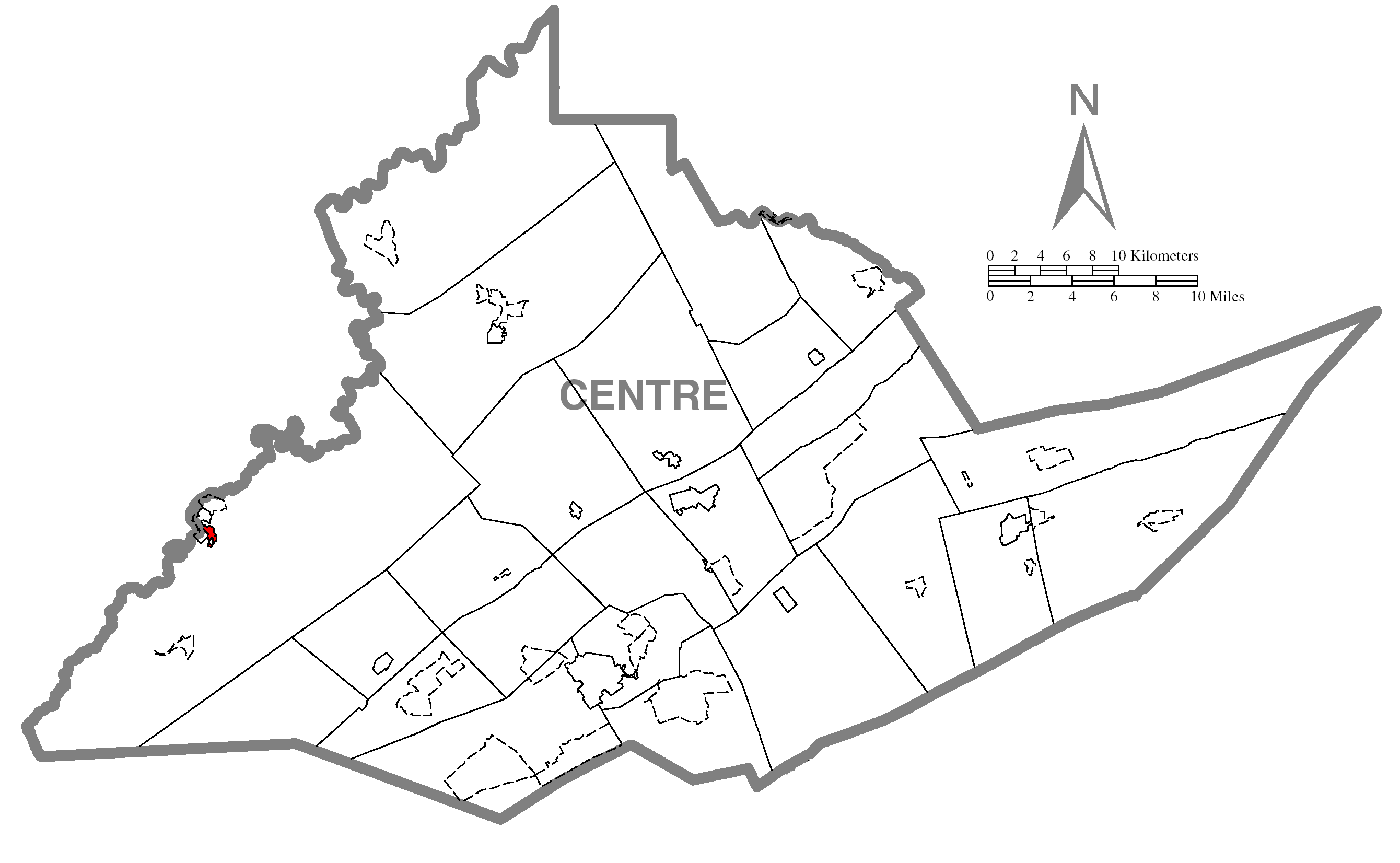 A map of Centre County showing Philipsburg, Pennsylvania (alternate) highlighted on the map.